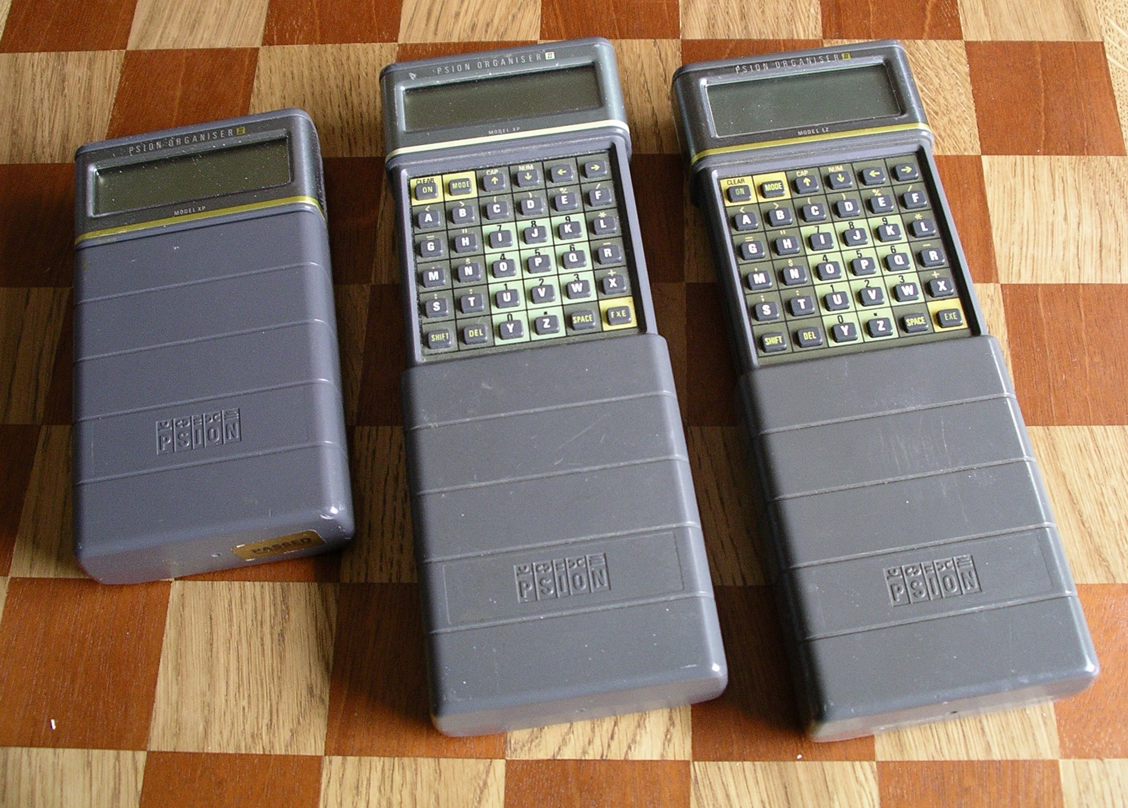 Picture shows one closed Psion Organiser and two Psion Organisers with the protective cover open. Model XP and Model LZ are shown. The background shows 5 cm squares. Photo taken by me on 17 October 2006.